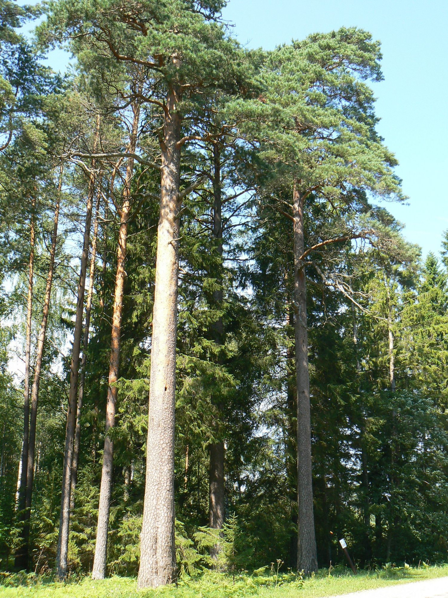 Mehide pines in Estonia. Three trees, the front one and two right side trees from it